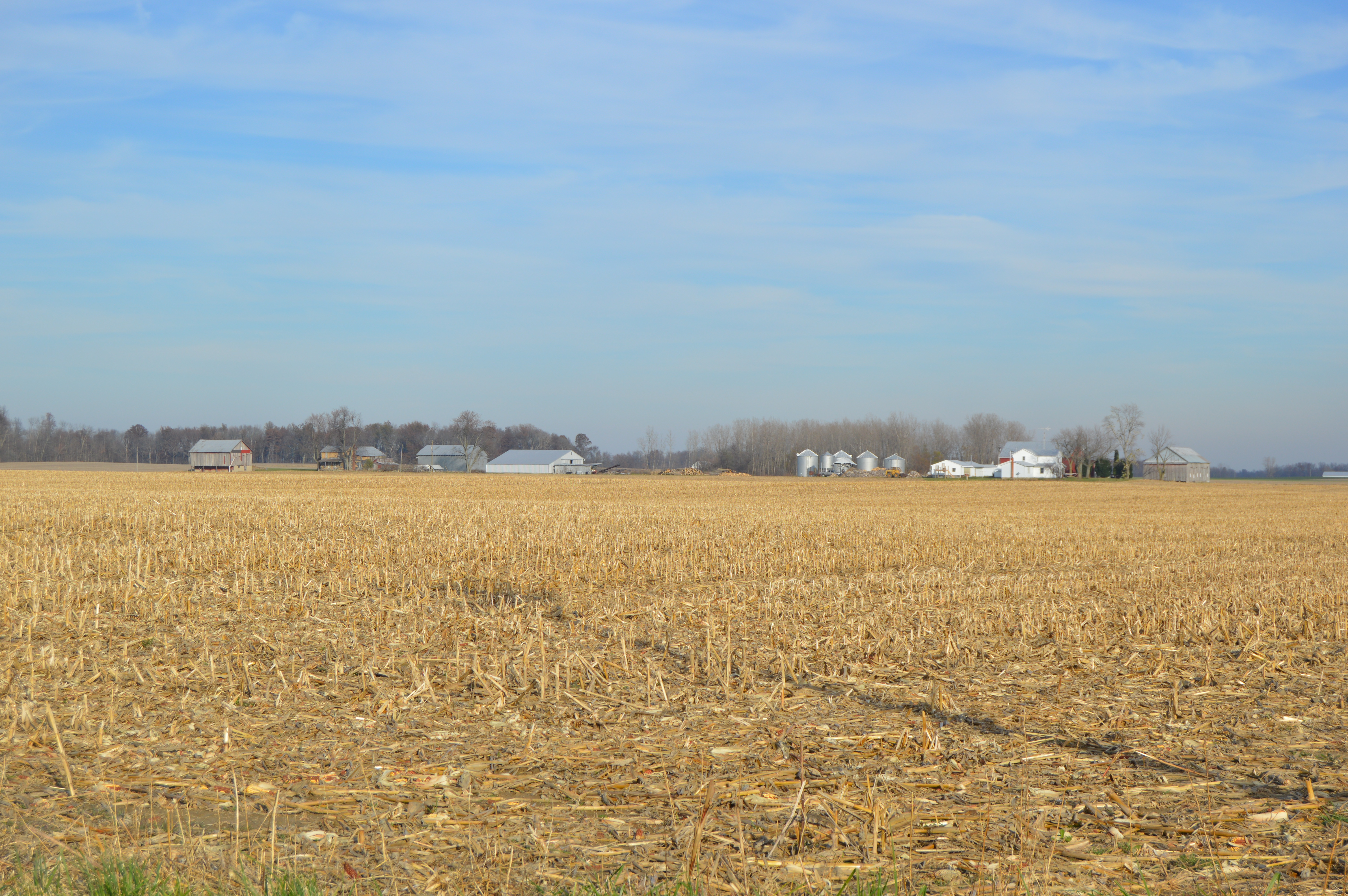 Looking northeast from the junction of Cox and Fisher-Dangler Roads in Washington Township, Darke County, Ohio, United States.